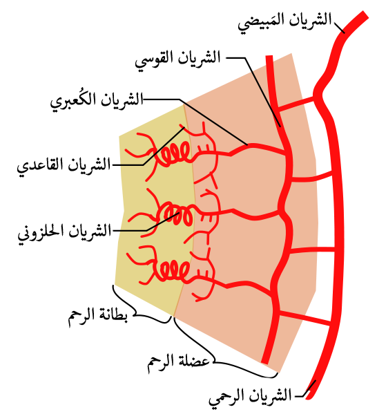 Arterial vasculature of the non-pregnant uterus